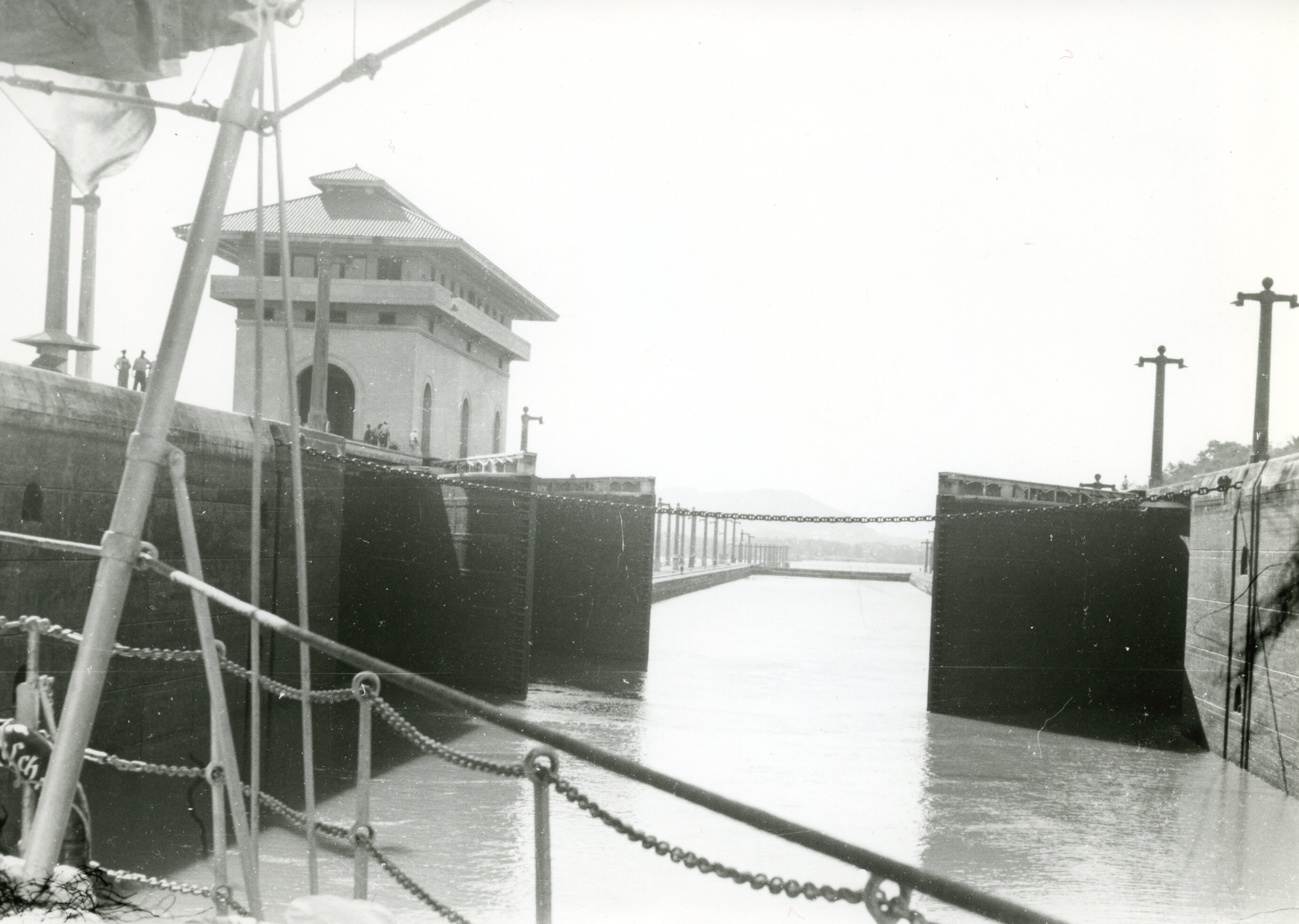 Fender chains of the Miraflores locks, from the passage of the SMS Schlesien on 8 March 1938. Also published in Gunter Leopold Spraul (2008) Vom Fähnlein zur Fahne in den Tod: Tagebücher und Aufzeichnungen des Leopold Schuhmacher (†1943) Oberleutnant zur See [From the Pennant to the Flag and unto Death: The Diary and Records of Leopold Schuhmacher (died 1943), Senior Lieutenant at Sea], Halle (Saale): Projekte-Verlag Cornelius, p. 370 ISBN 978-3-86634-502-7